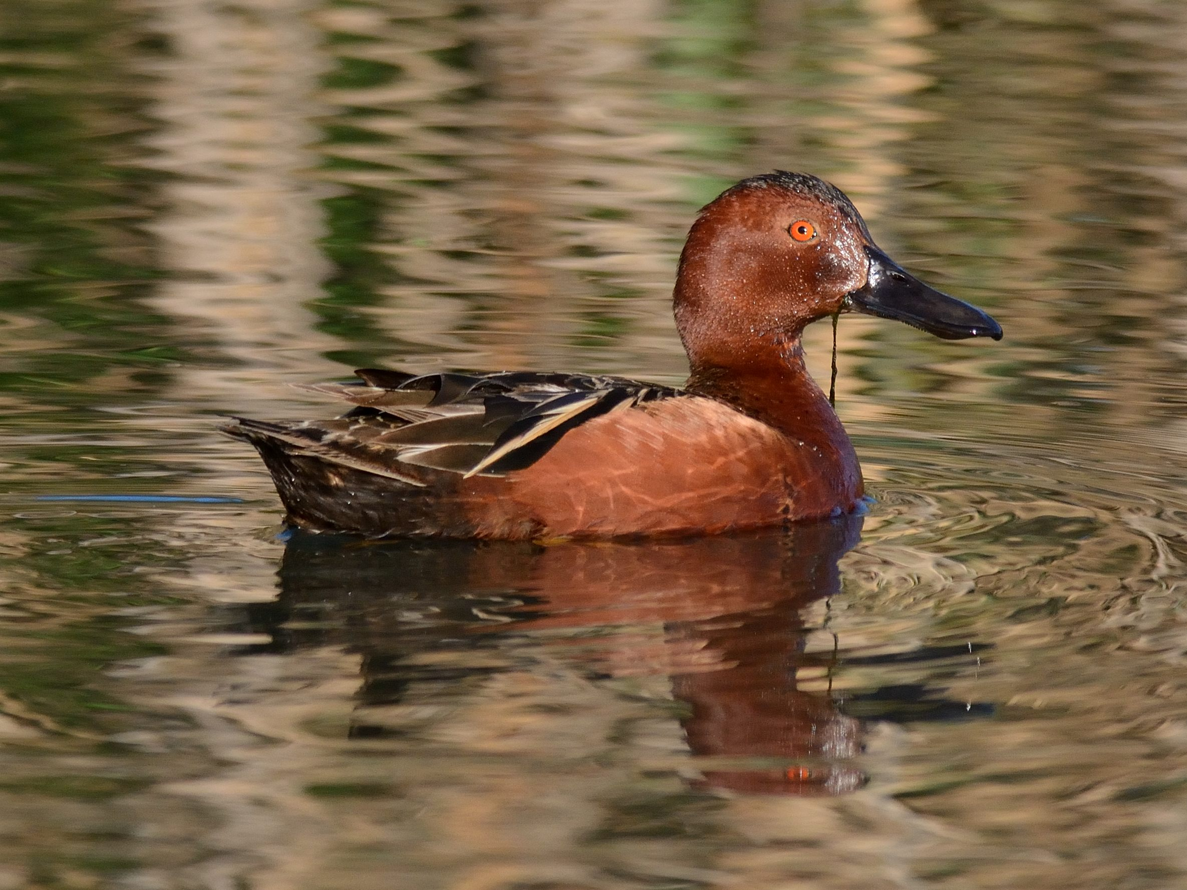 Anas cyanoptera, male Cinnamon Teal duck, San Andrés Wetland, Concepción, Chile